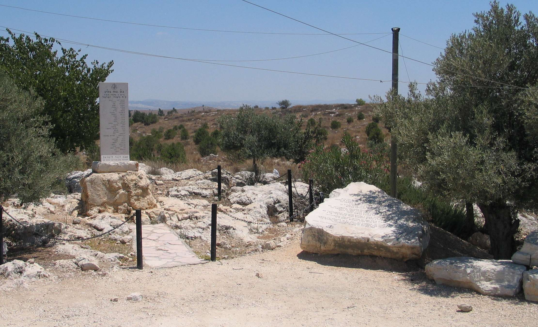 Givat Koach (Hill of 28) memorial, Israel.